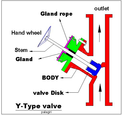 this is Y type globe valve